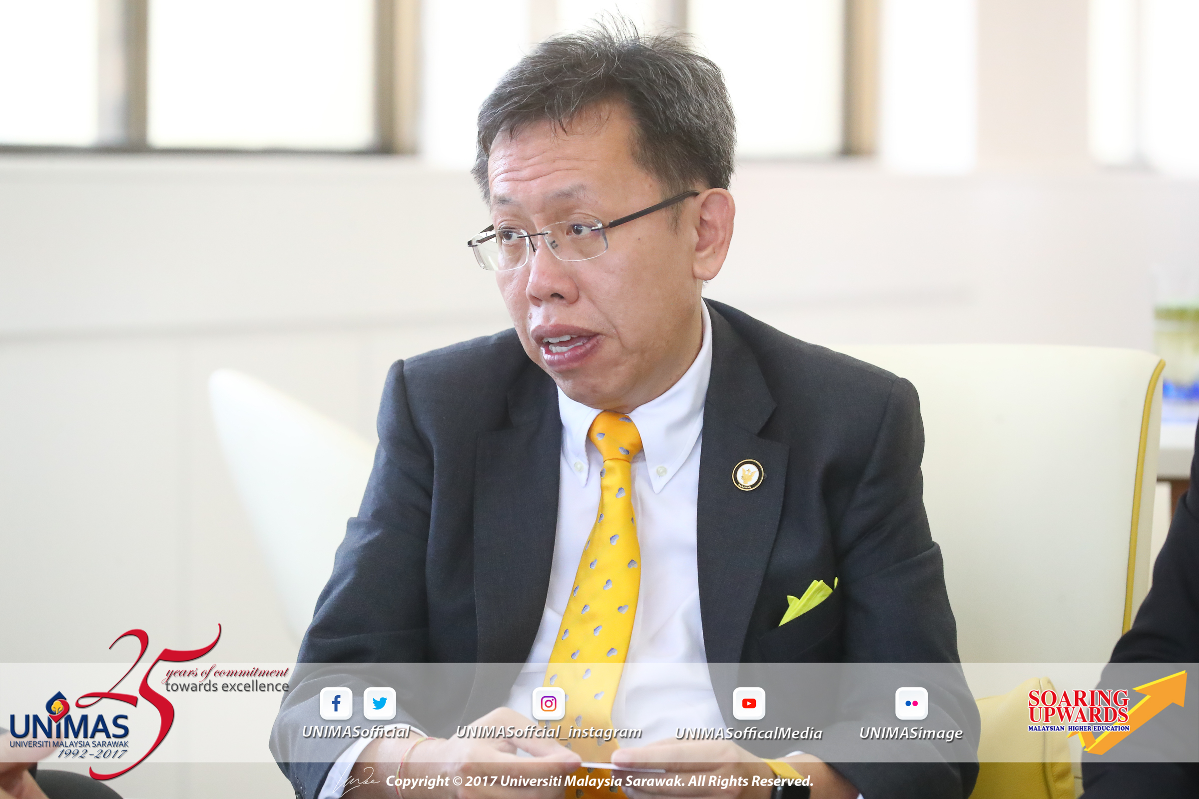 Courtesy Visit to YB Senator Datuk Dr Sim Kui Hian Celebrating UNIMAS 25 years of Excellence! UNIMAS25 UNIMASofficial UNIMAS SoaringUpwards Universiti Malaysia Sarawak facebook: twitter : Instagram : Youtube : Flickr